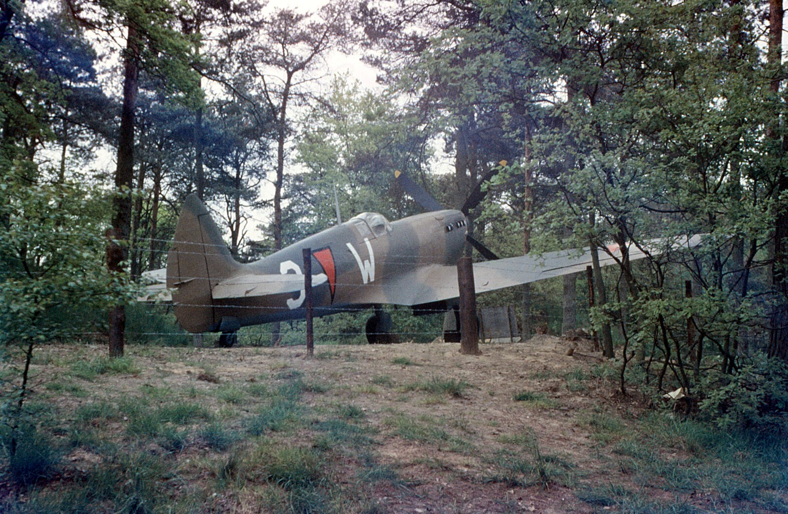 the National War and Resistance Museum at Overloon in the early 1960s